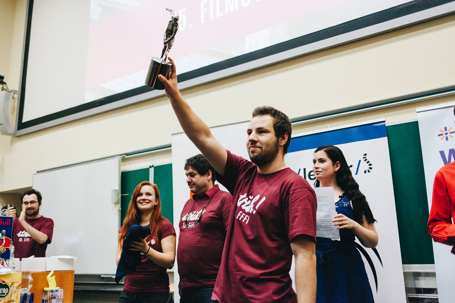 Film festival of Faculty of Informatics winners